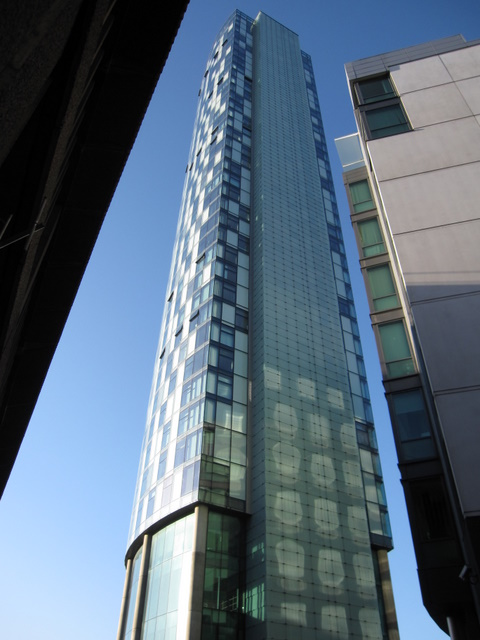 West Tower, Liverpool, England, UK